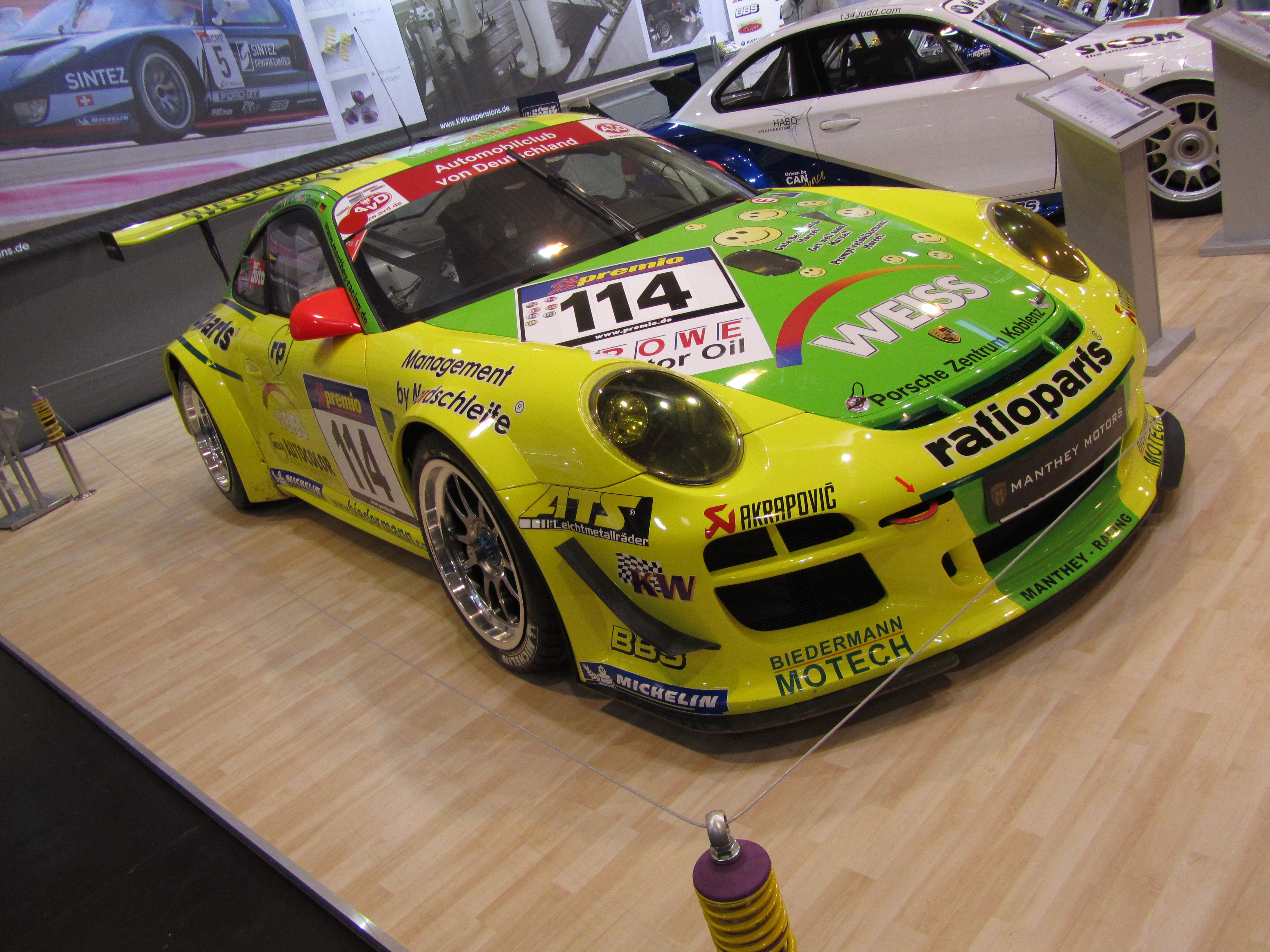 Porsche 911 GT3 R "Manthey Racing" at the Essen Motor Show 2010